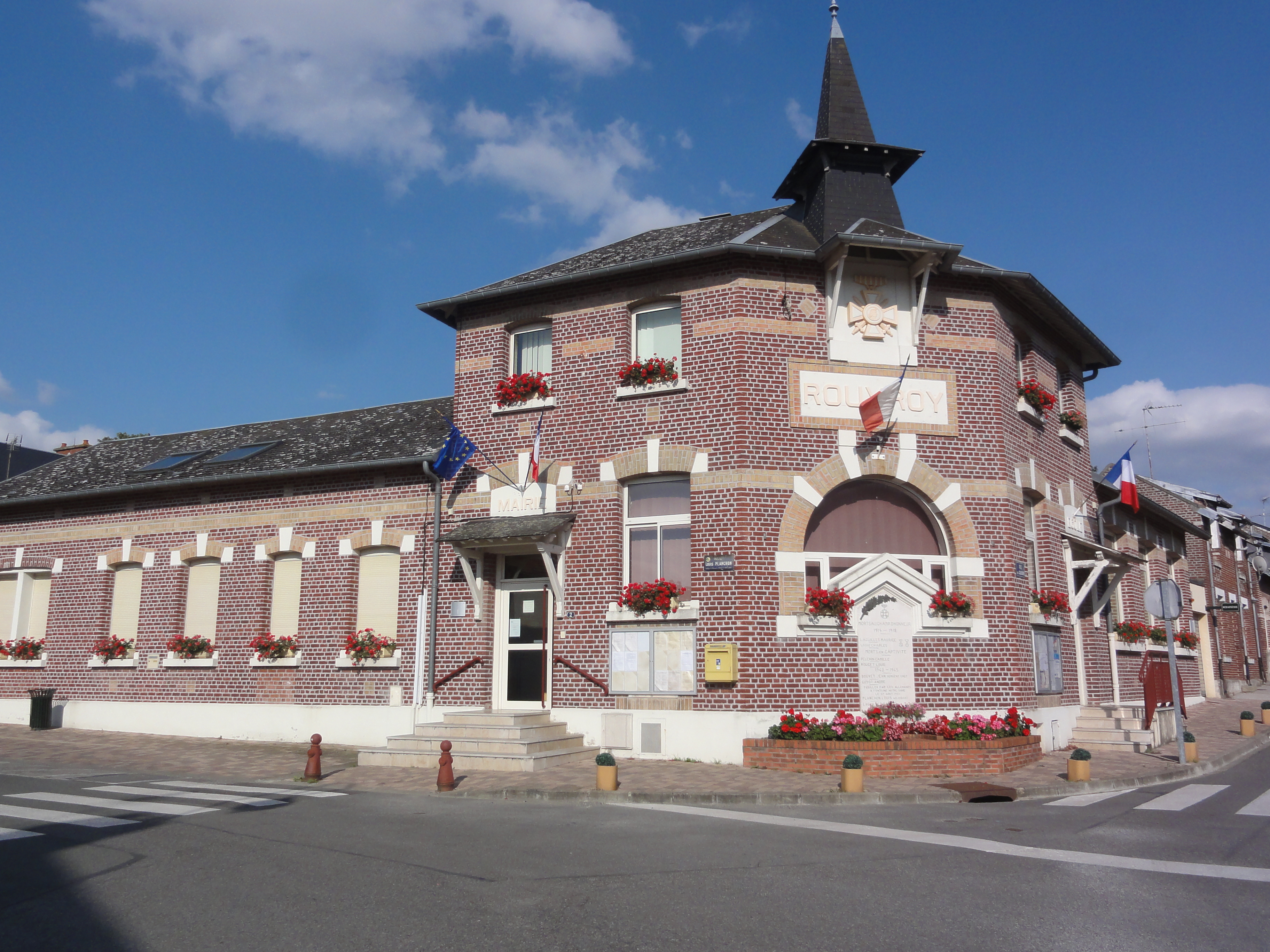 Rouvroy (Aisne) mairie